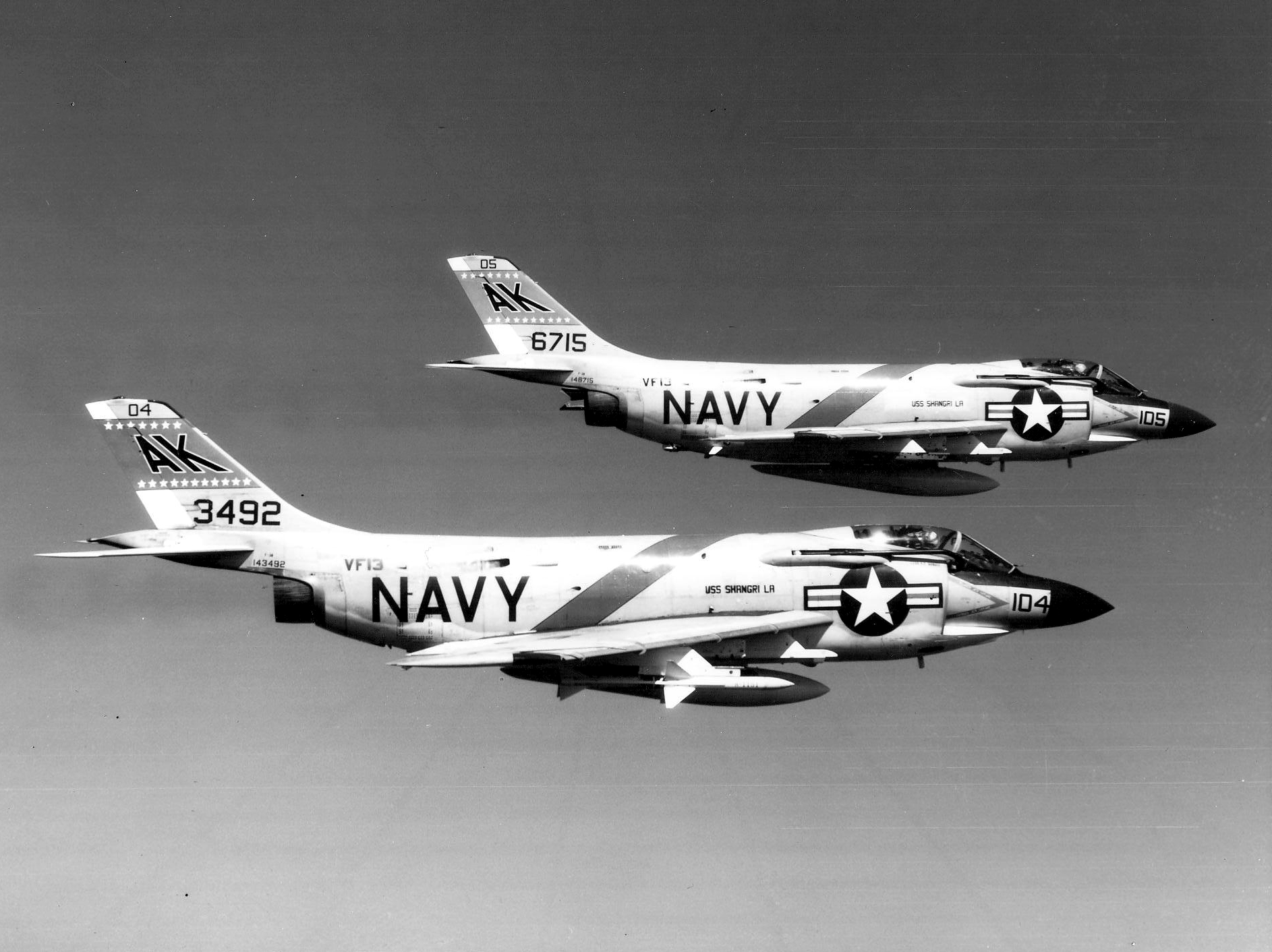 Two U.S. Navy McDonnell F3H Demons (F3H-1N BuNo 133492 "104" & F3H-2/F-3B BuNo 146715 "105") from Fighter Squadron VF-13 "Night Cappers" in flight. VF-13 was assigned to Carrier Air Group 10 (CVG-10) aboard the aircraft carrier USS Shangri-La (CVA-38).